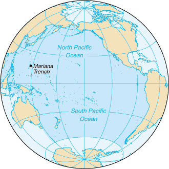 Pacific Ocean map, tagged in English